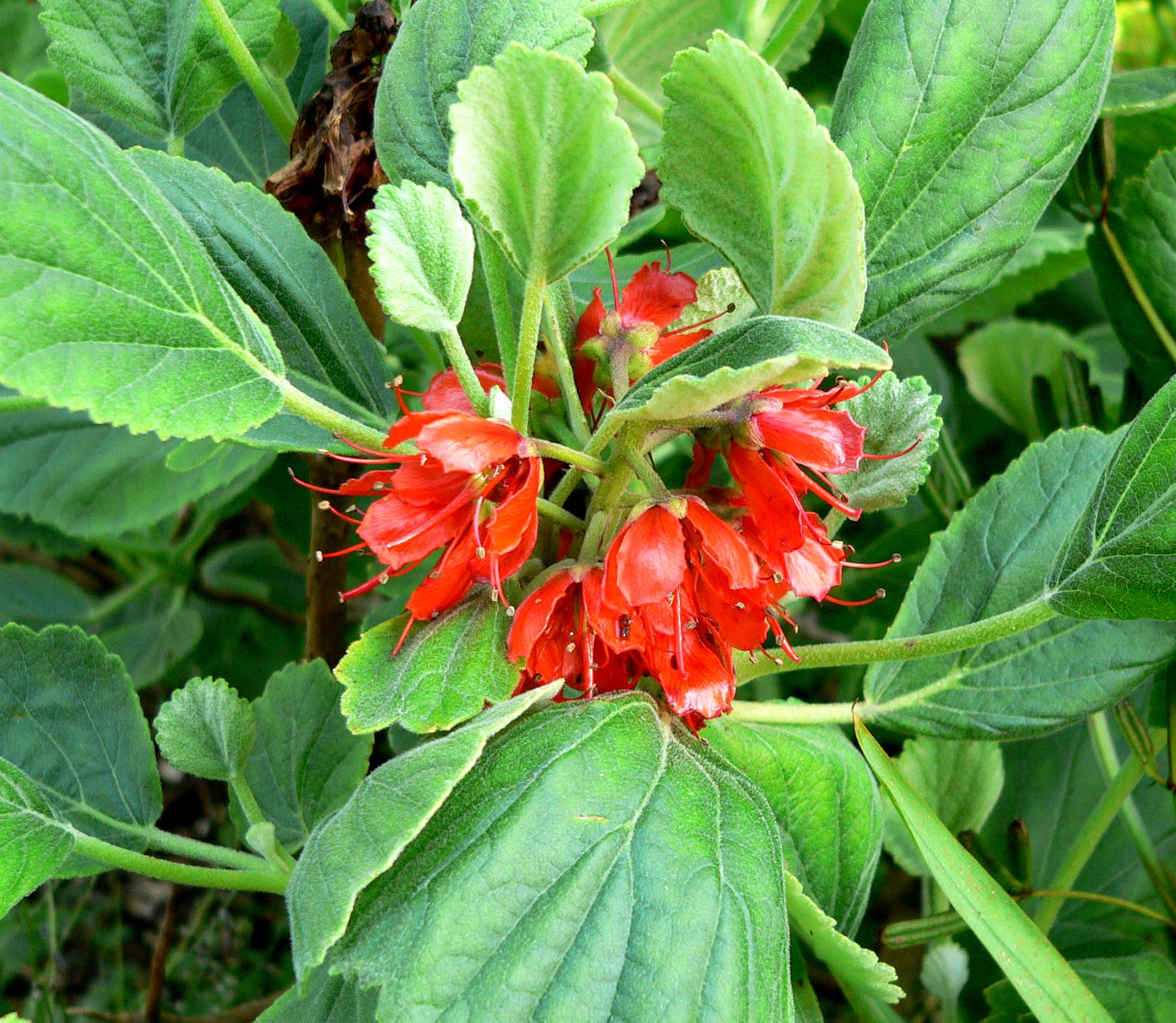 Photo of Greyia radlkoferi at the San Francisco Botanical Garden